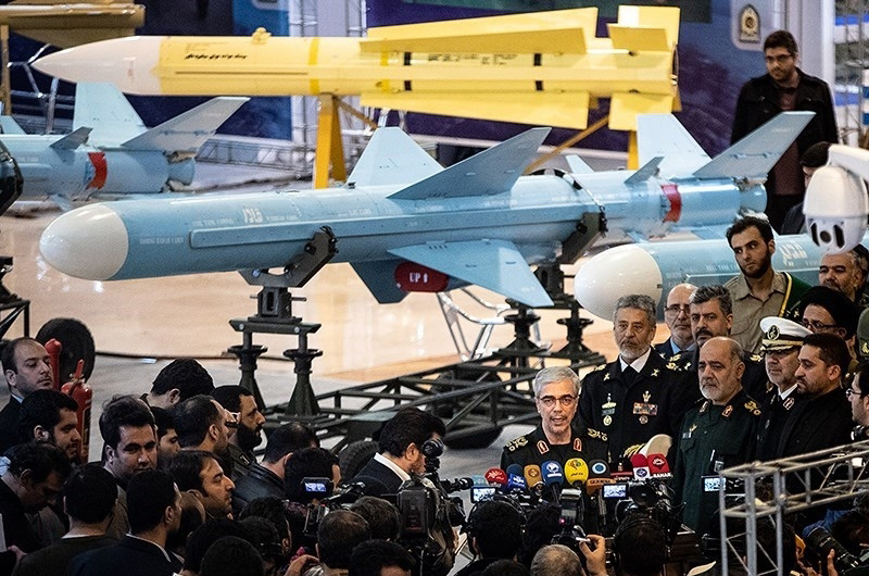 An Iranian Fakour-90 air-to-air missile (rear, yellow) on display at the Eqtedar 40 defence exhibition in Tehran.